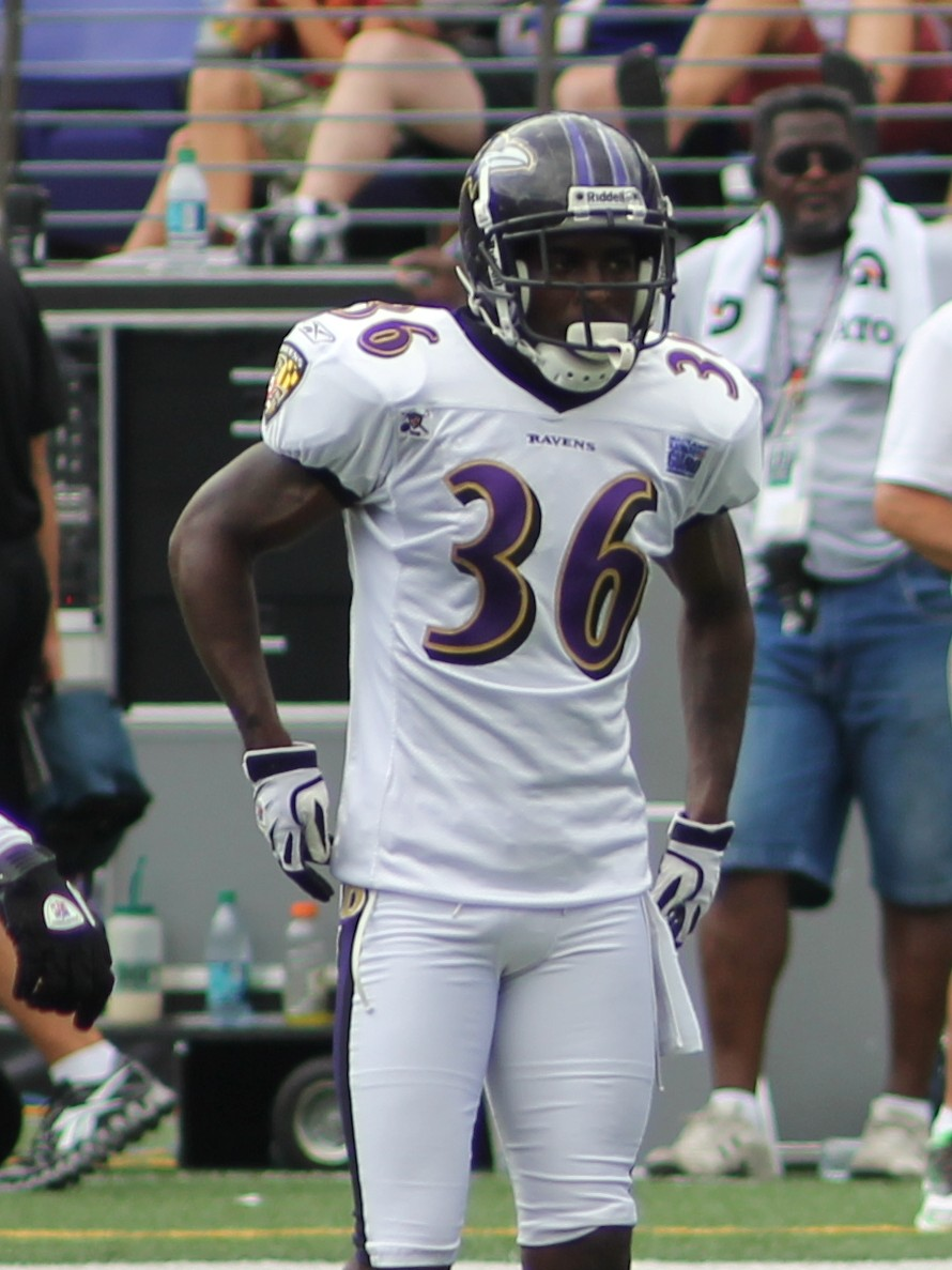 Danny Gorrer Practice at M&T Bank Stadium August 2011